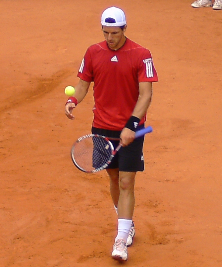 Jürgen Melzer during the match versus Jérémy Chardy at the German Open 2010 in Hamburg